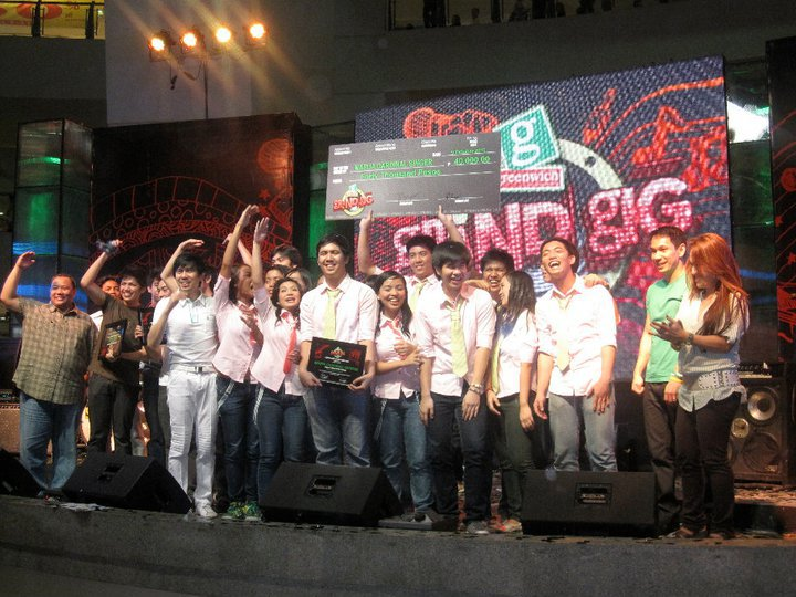 Greenwich Grand Gig 2010 Champs